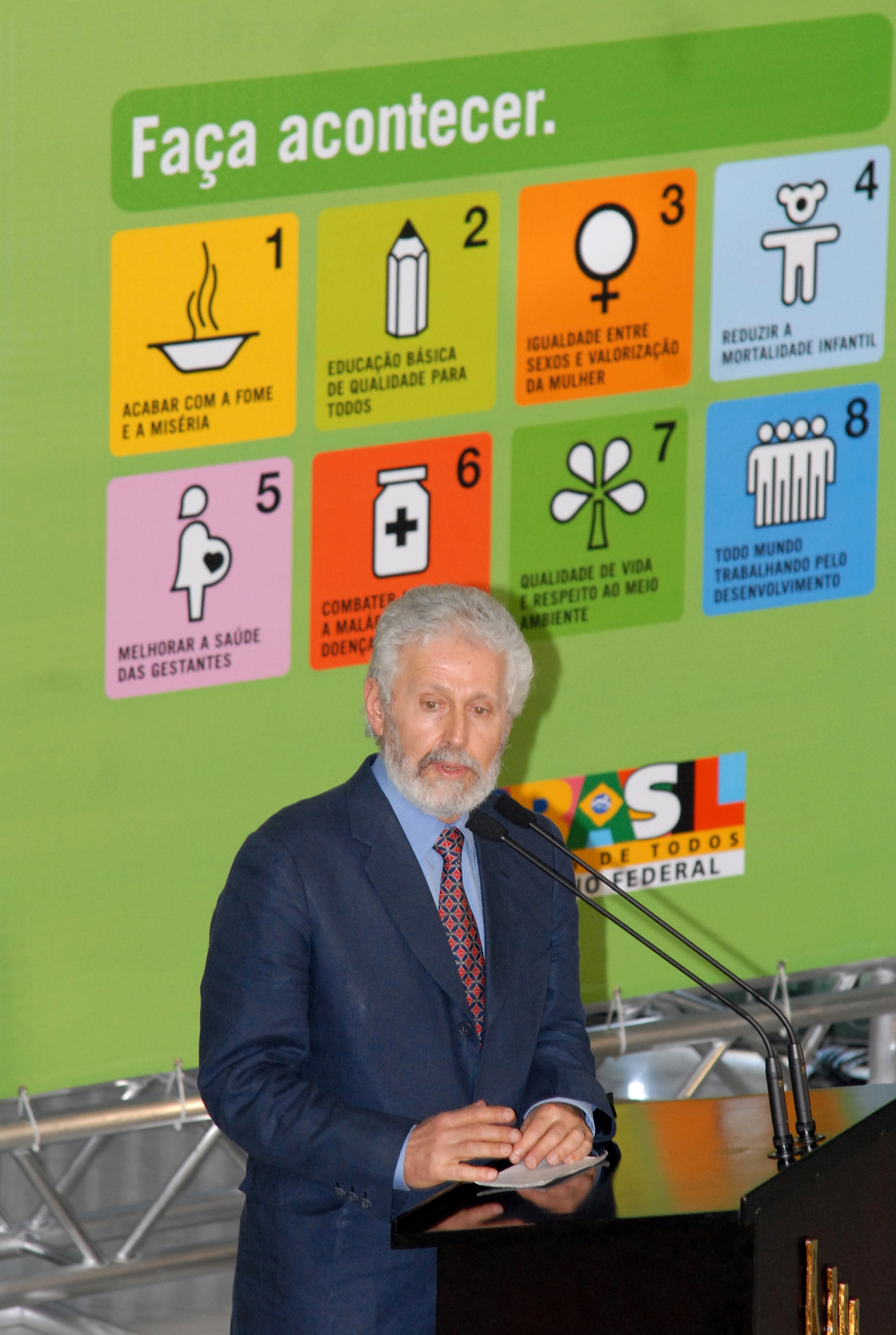 Oded Grajew